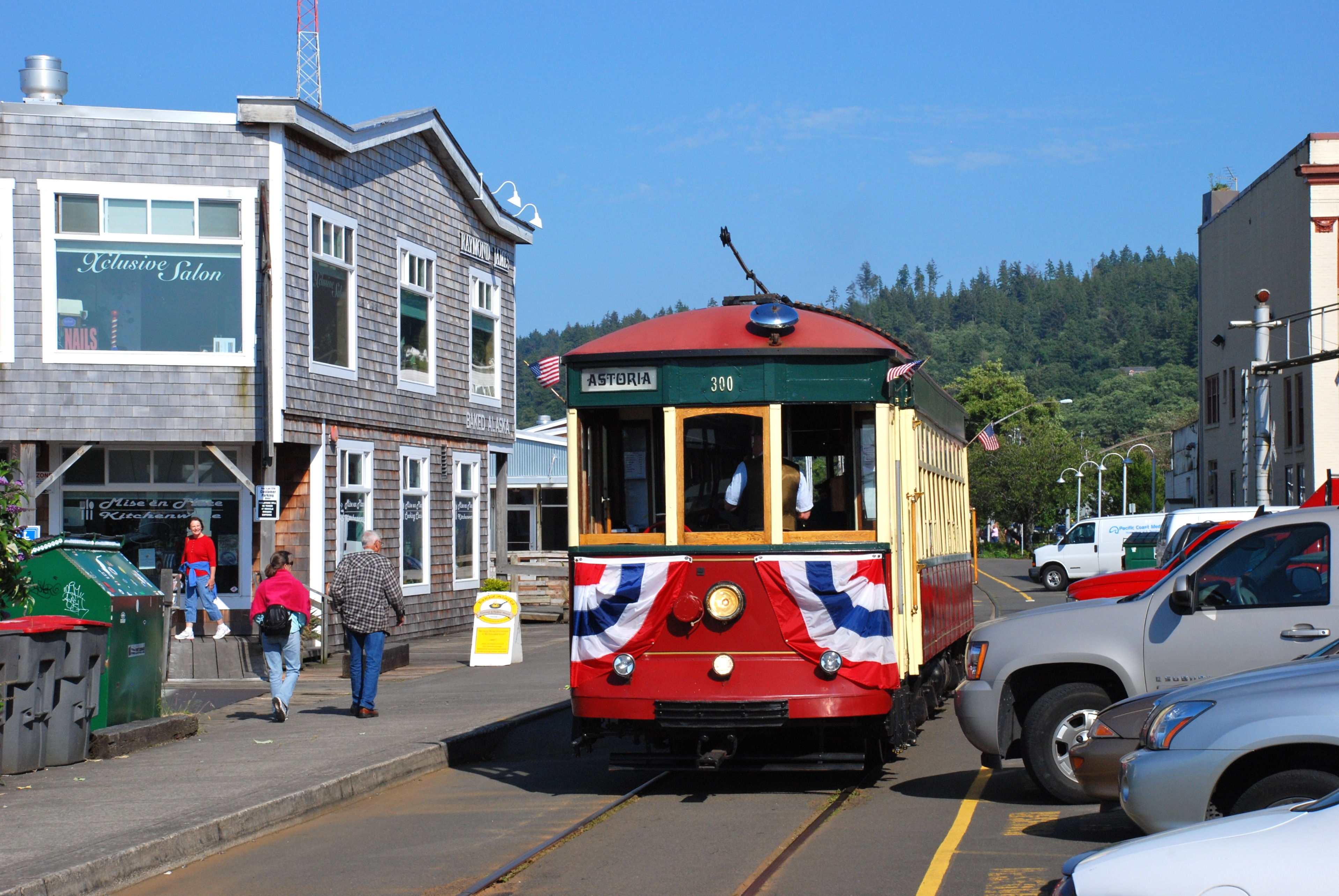 Astoria Riverfront Trolley car 300 eastbound (going away from the camera) just west of 12th Street. This heritage streetcar line in Astoria, Oregon, has been in operation since 1999. Car 300, nicknamed "Old 300", is an ex-San Antonio (Texas) streetcar built in 1913 by the American Car Company, by that time a subsidiary of the J. G. Brill Company. The photo was taken four days after Independence Day, and the car is adorned with U.S. flags and red, white and blue bunting.